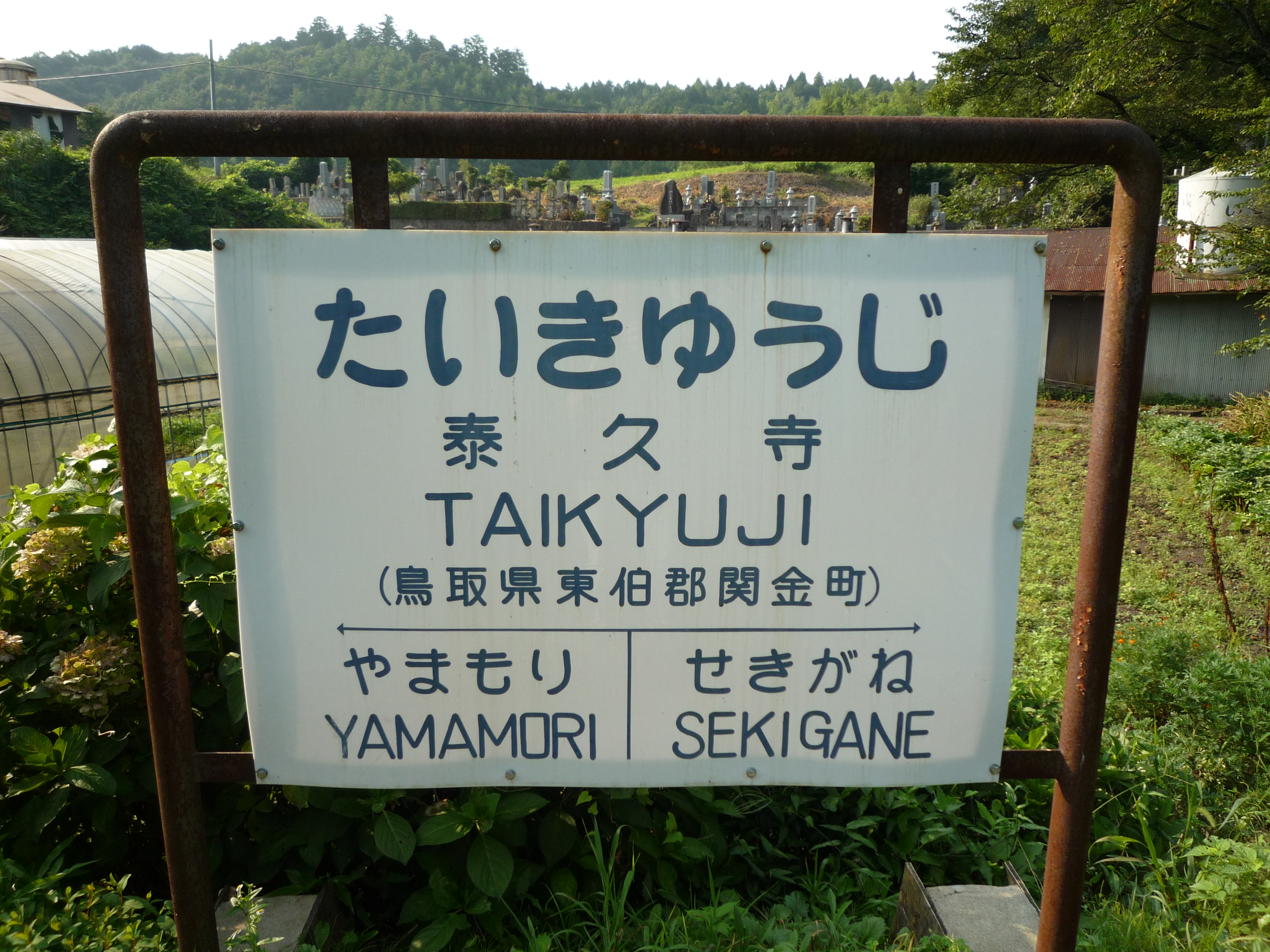 Replica of Taikyuji Station Name Board in Kurayoshi City (ex. Sekigane Town), Tottori Prefecture.